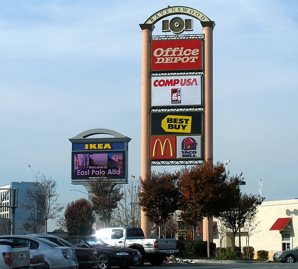 Commercial signs next to the Bayshore Freeway, U.S. Highway 101, in East Palo Alto. The taller sign is for the Ravenswood 101 Shopping Center, while the shorter sign is for the Ikea store across the street.